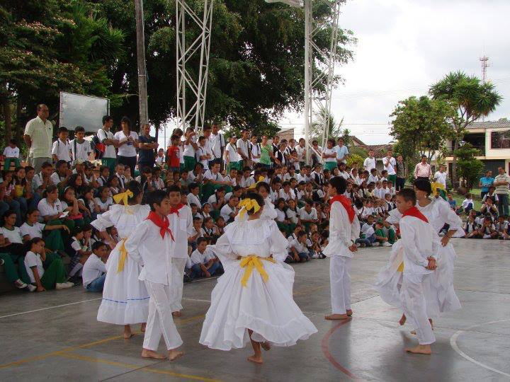 Grupo de Danza "Al Son Que Me Toquen Bailo" de Ulloa, Valle, en un evento cultural del municipio.